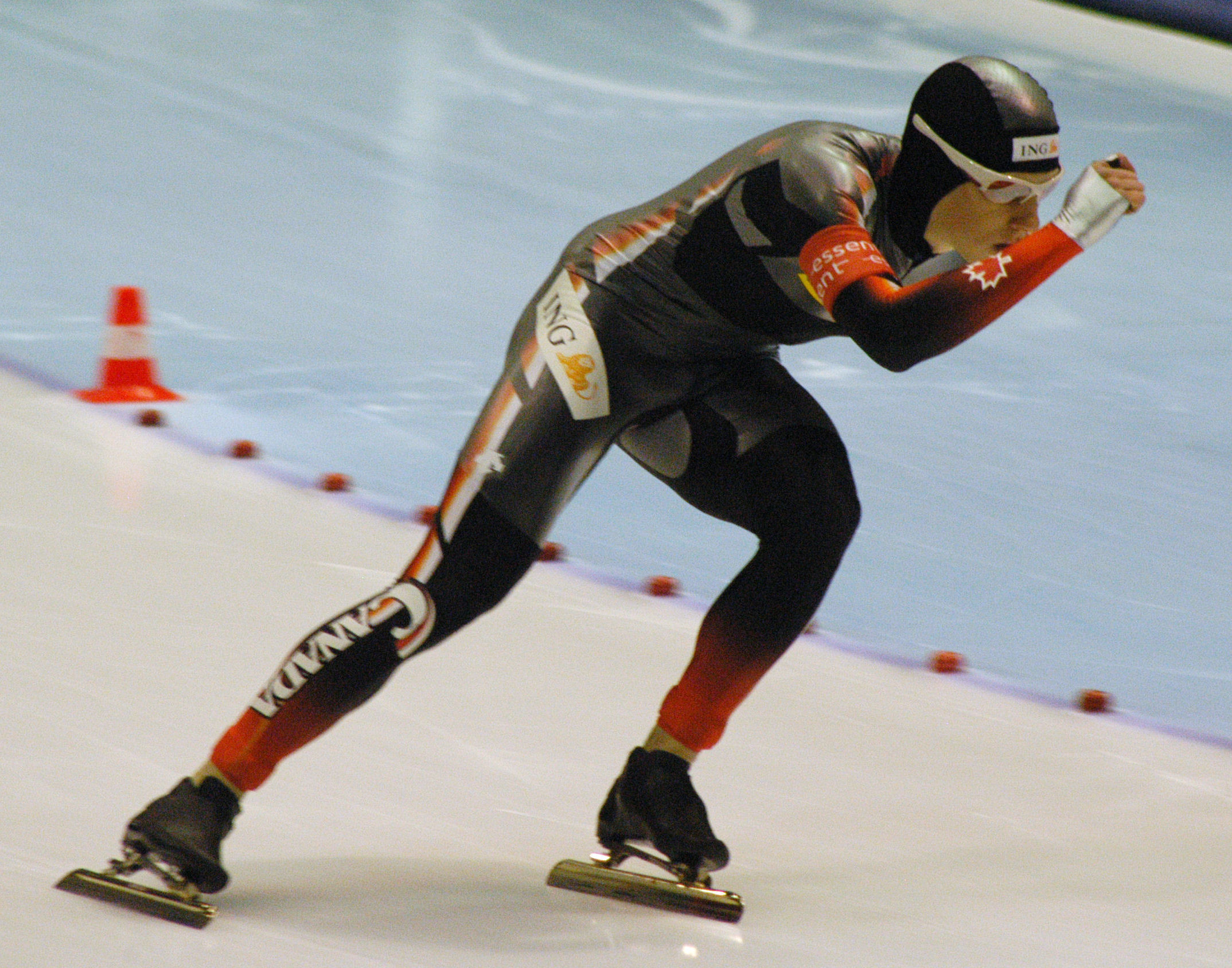 Justin Warsylewicz (CAN) at a World Cup speedskating in Heerenveen (NED)